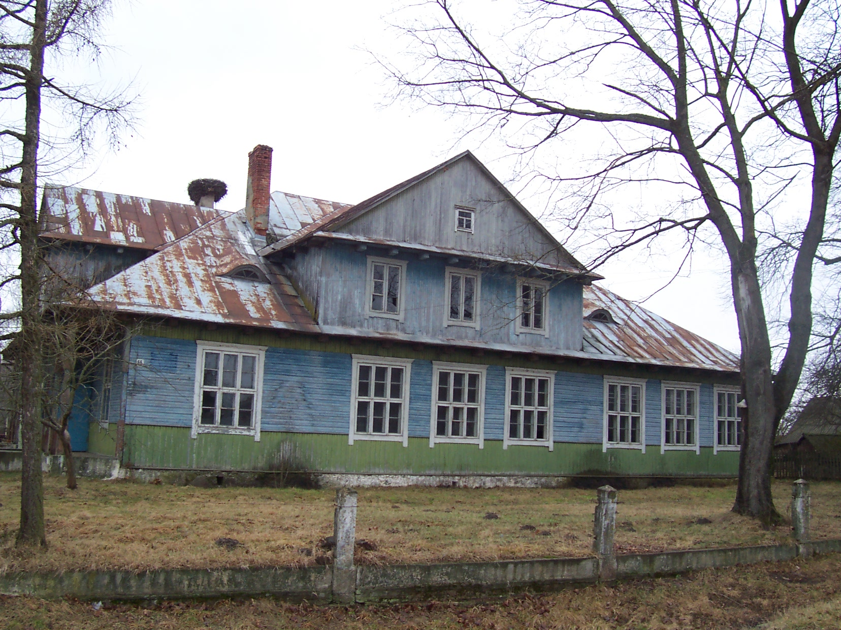 The building of the old school in Medvedichi village, Belarus